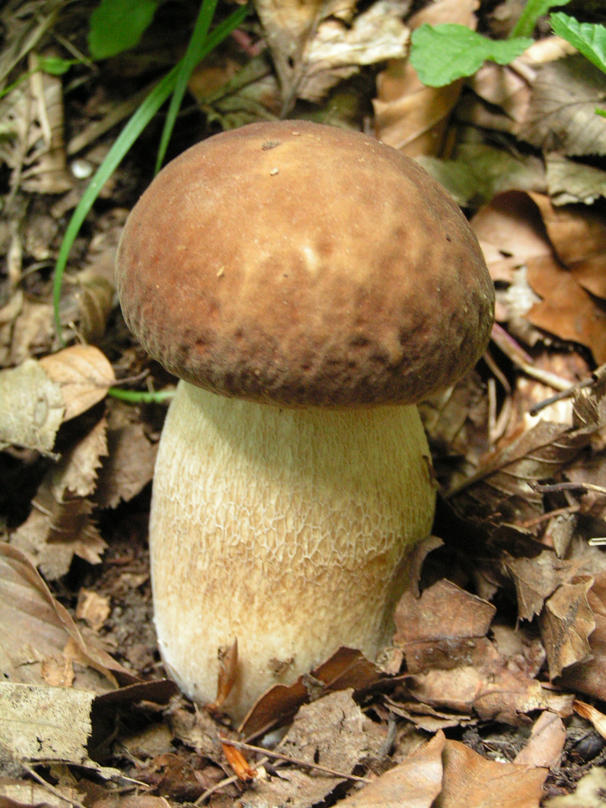 Boletus reticulatus, Snina, Slovakia